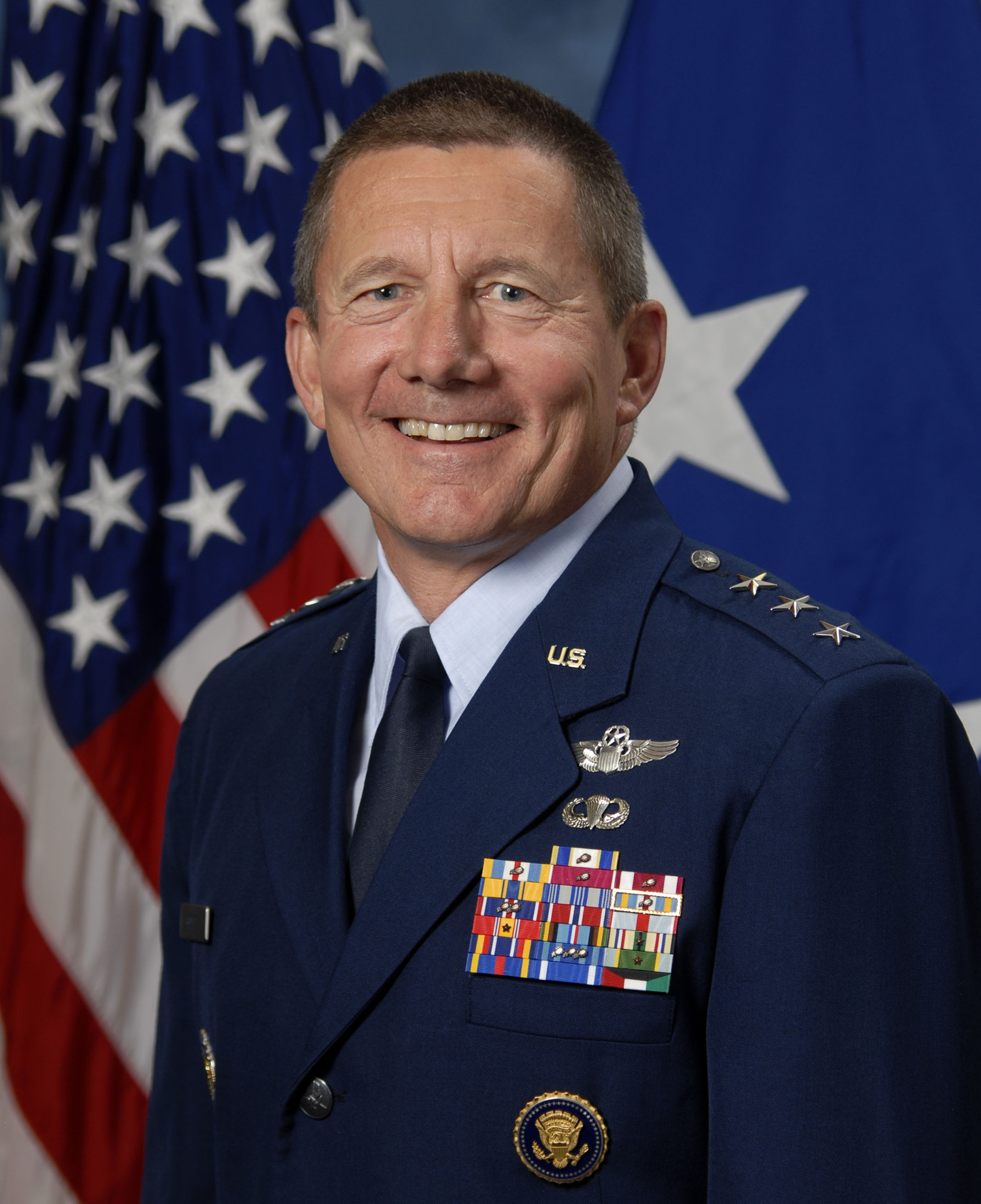 Official biographical photo of Lt. Gen. Michael C. Gould